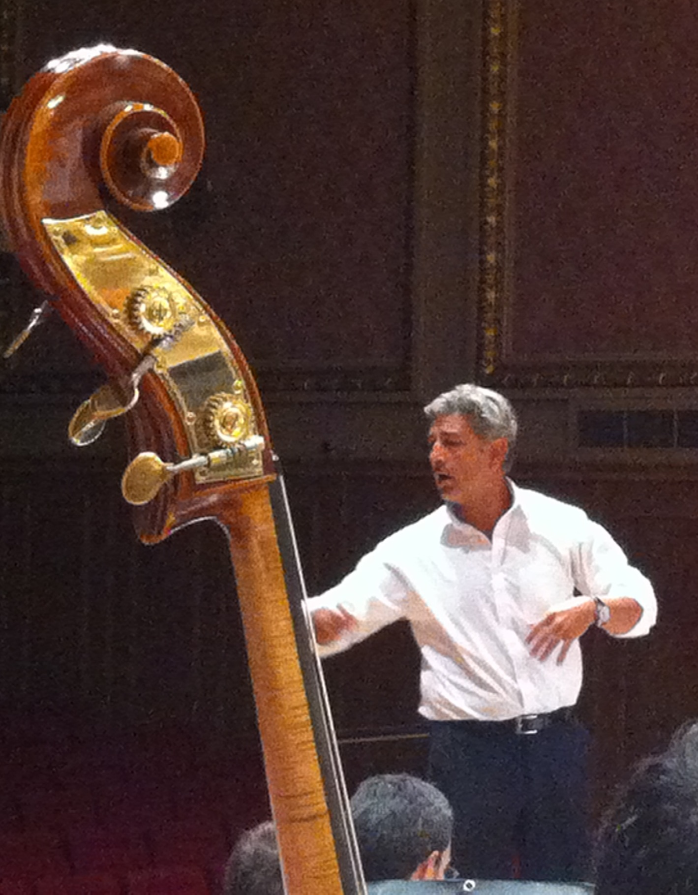 Alfonso Maribona, conductor